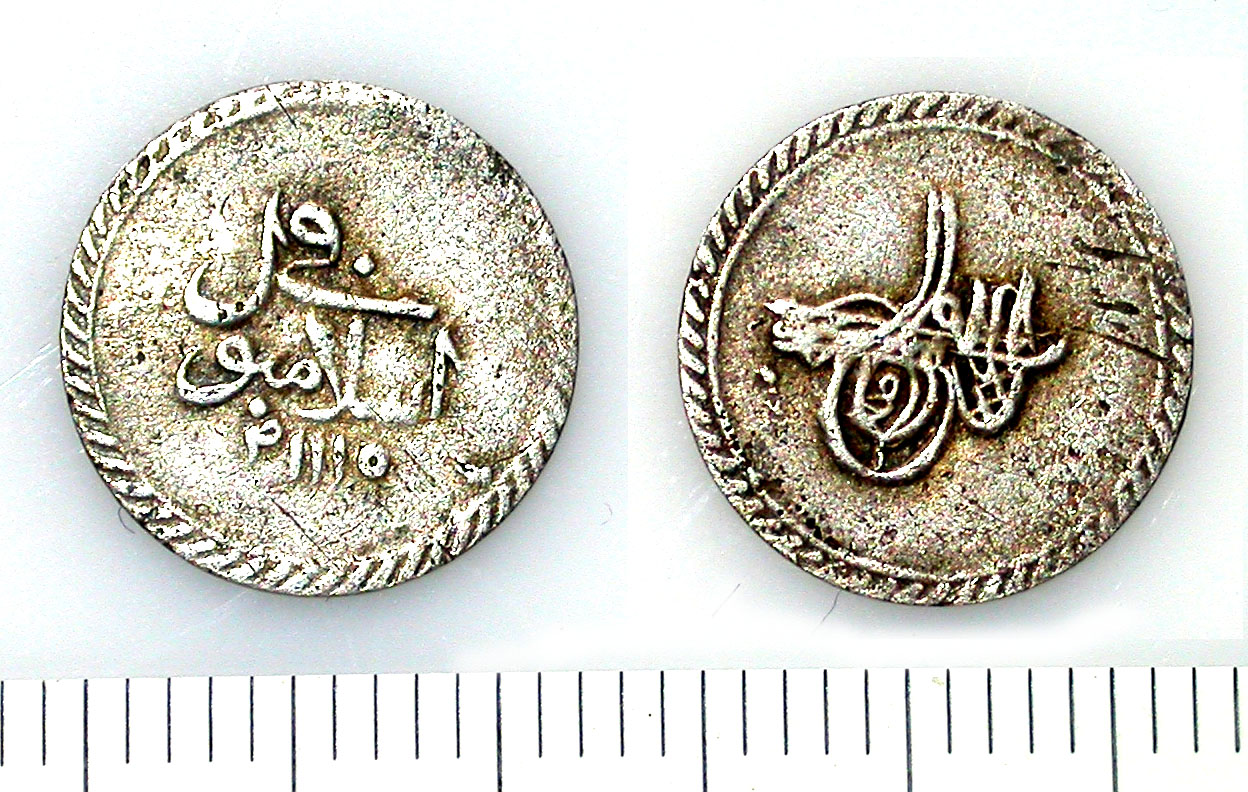 Paul Cannon kindly comments: A silver Ottoman coin (probably a 'para') of Ahmed III (AH 1115-1143; equivalent to AD 1703-1730). It cannot relate to the previous Sultan Mustafa II for several reasons. In common with most Ottoman coins the dates they bear are usually the accession date of the sultan, ie the date he came to the throne. The face with the date translates as "(struck) in Islambol 1115". To the left of the date is a single Arabic letter which is probably a 'mim', one of numerous initial marks used. Islambol is one of the various names for Istanbul. Islambol was used for the very first time as a mint name on coins by Ahmed III in AD 1703. This coin cannot therefore pre-date his reign.